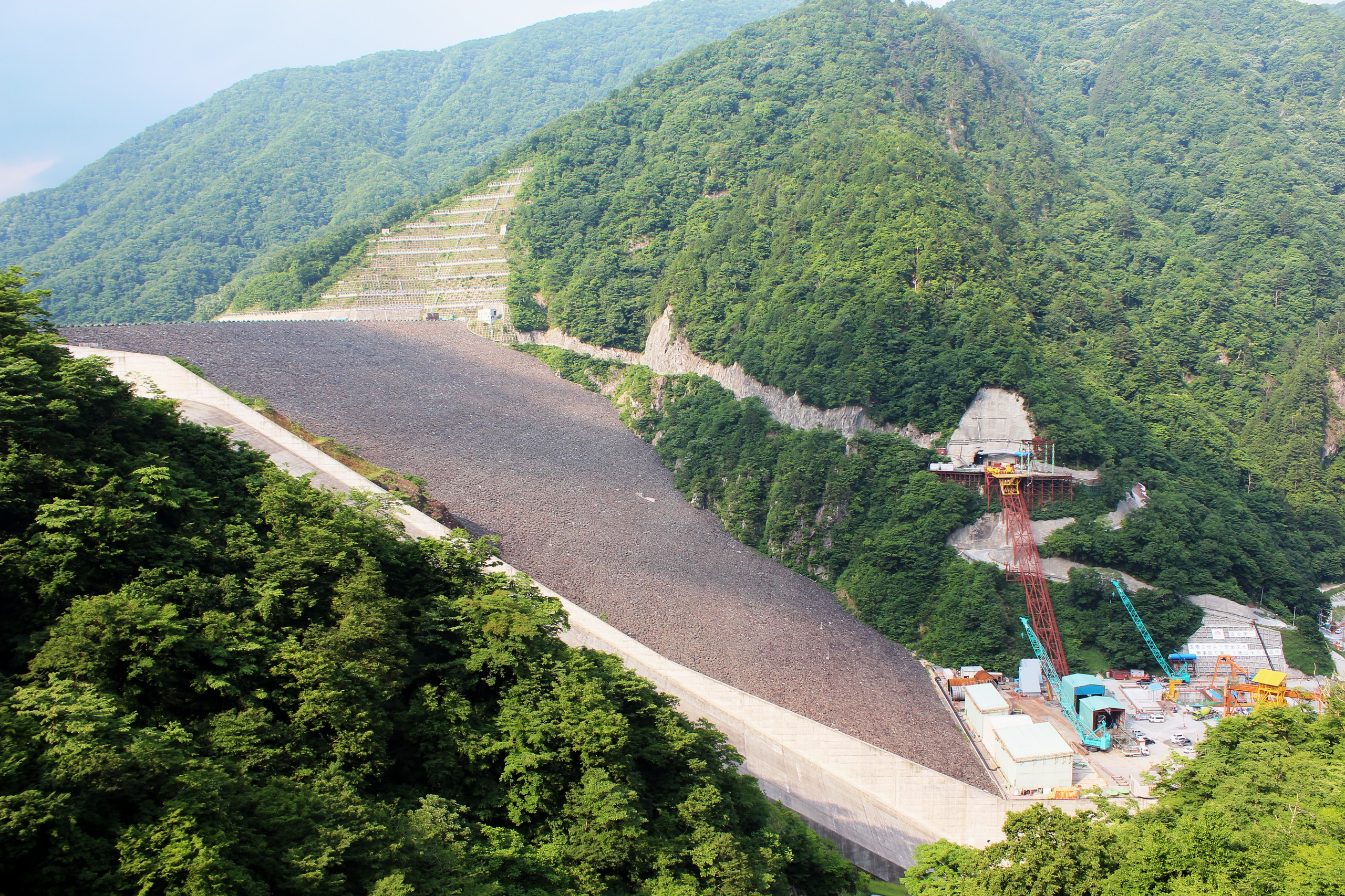 Tokuyama Dam under involved construction